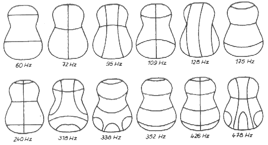 Chladni modes of a guitar plate (taken from